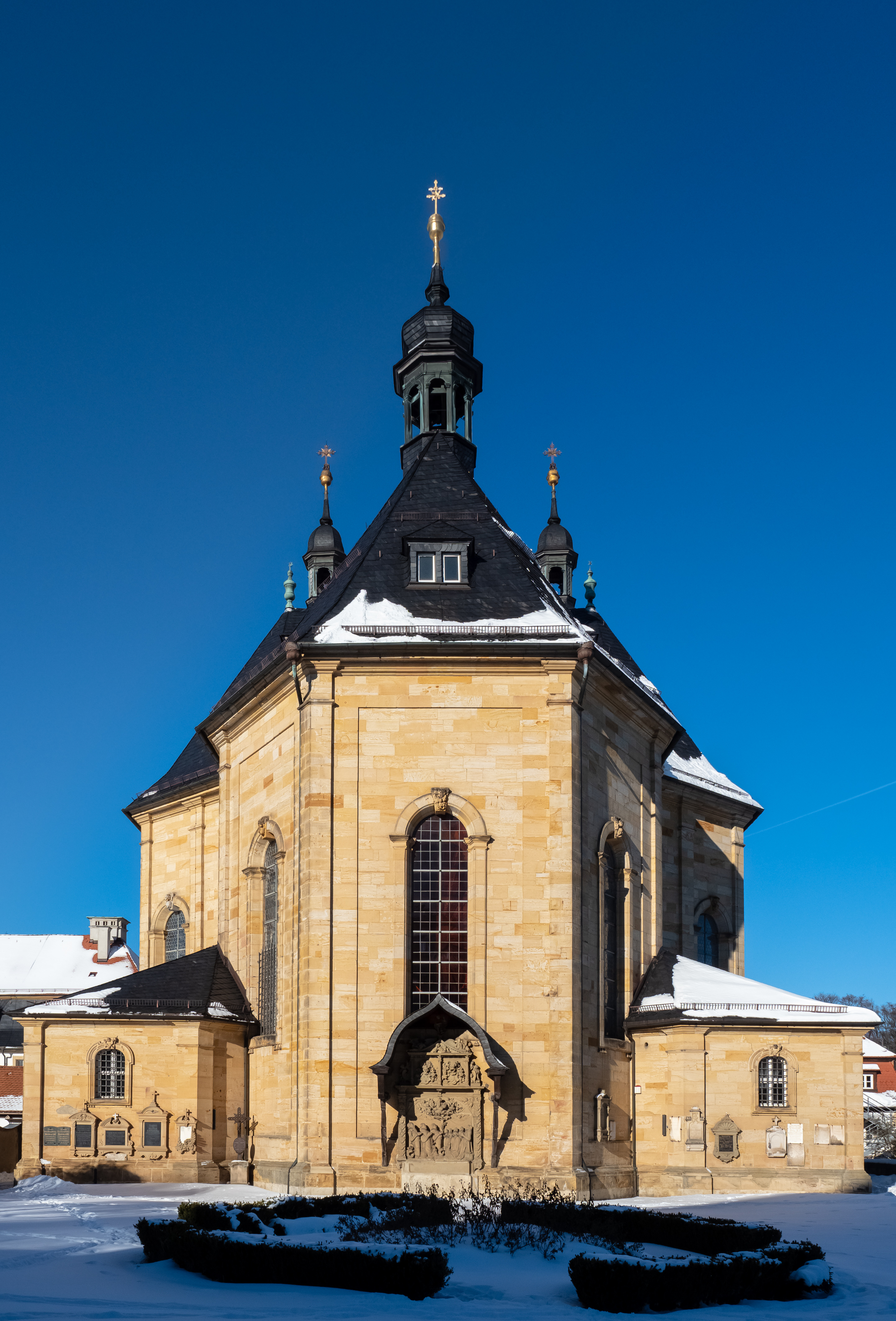 Basilica Gößweinstein seen from the south